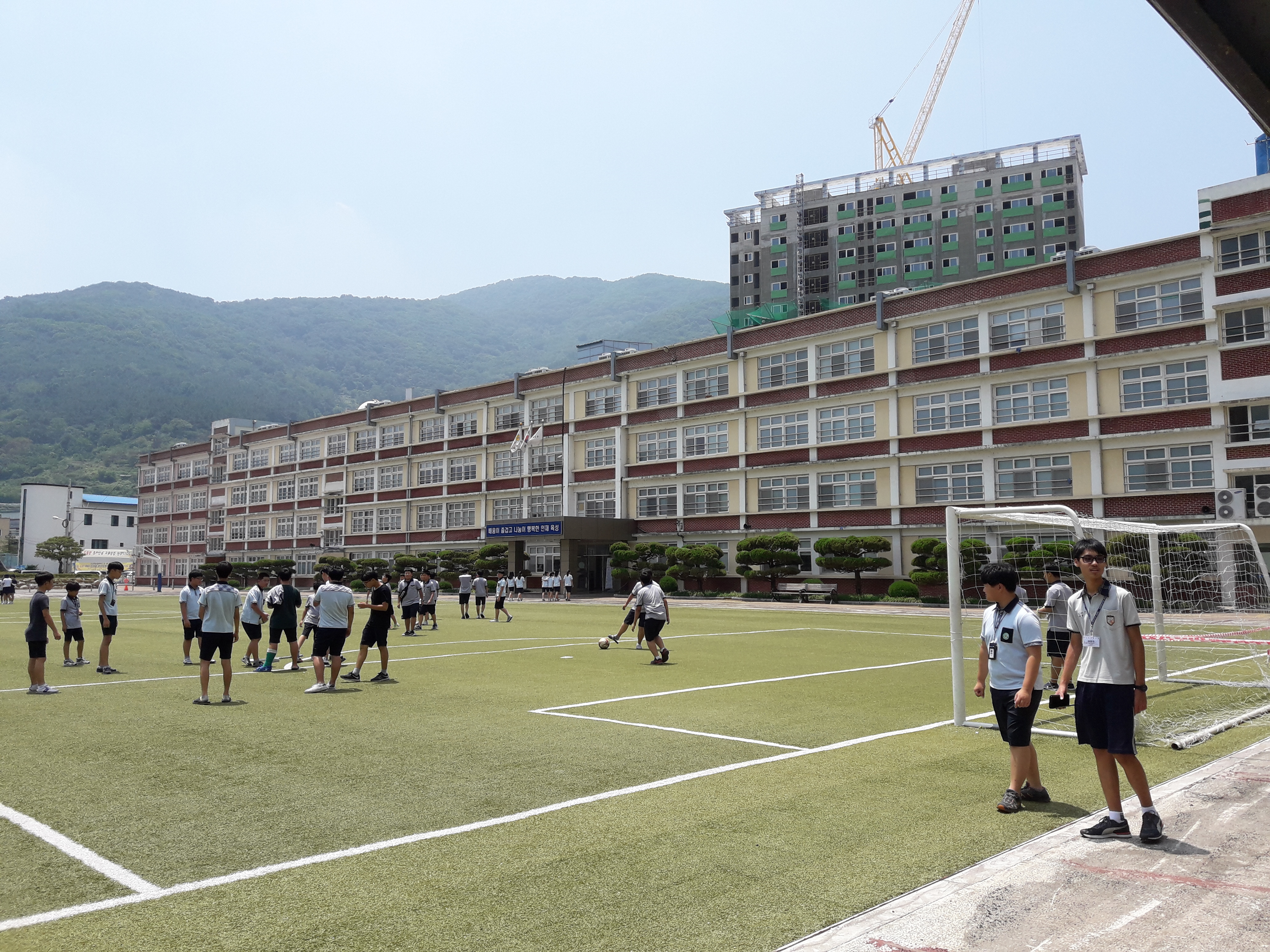 Cheongdo Middle & High School.